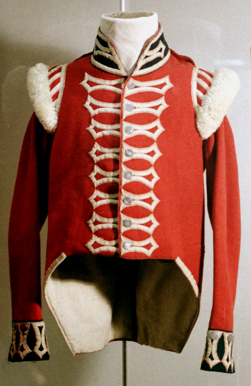 The uniform jacket of a private soldier of a flank company of the 42nd Regiment of Foot (circa 1815 or some later).Original item, not replicaCollection of Borodino Battlefield Museum, RussiaPhoto has been taken during the exhibition in Kolomenskoe Museum, Moscow, Russia